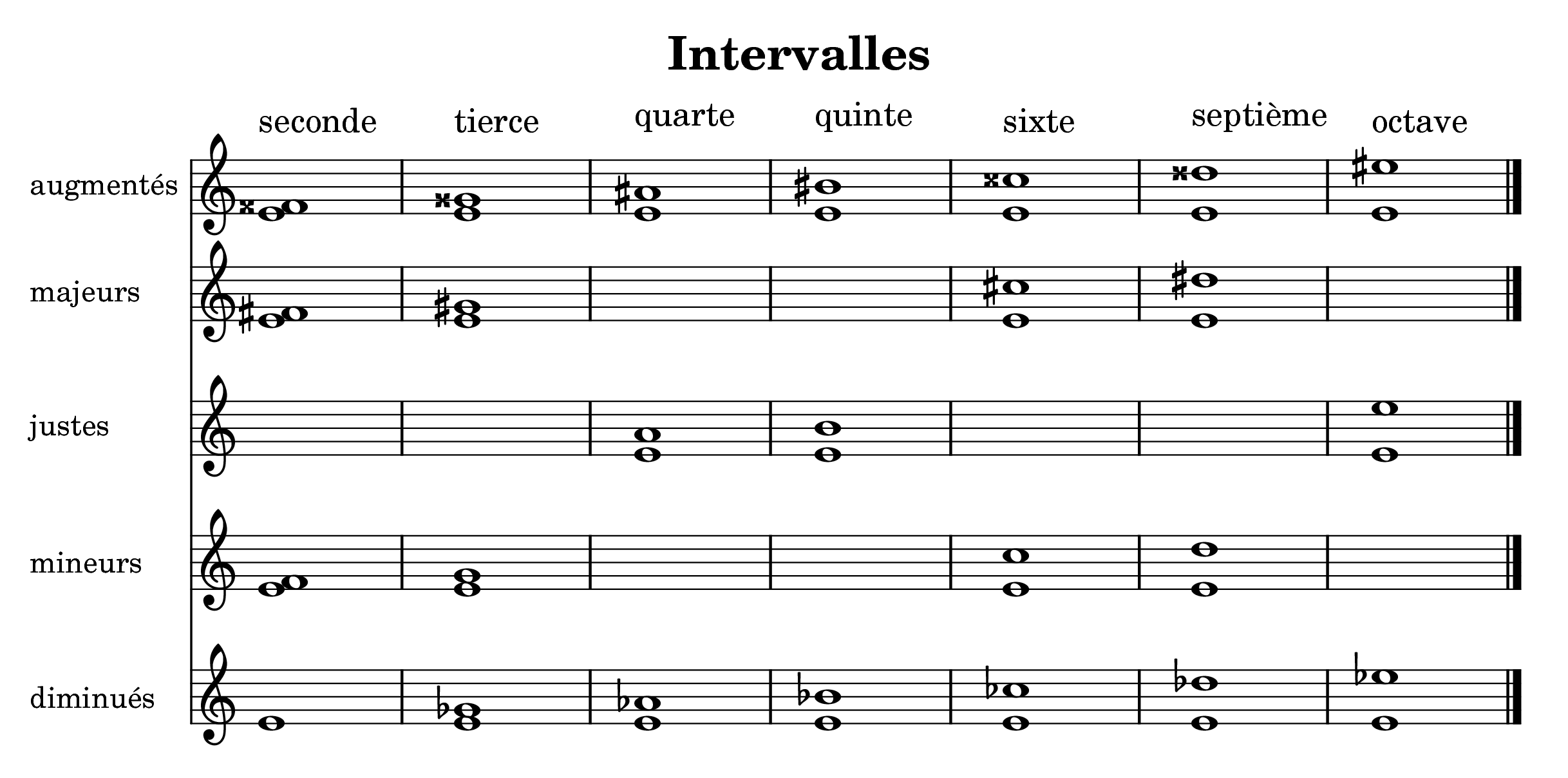 Table of all intervals used in occidental music (in french)